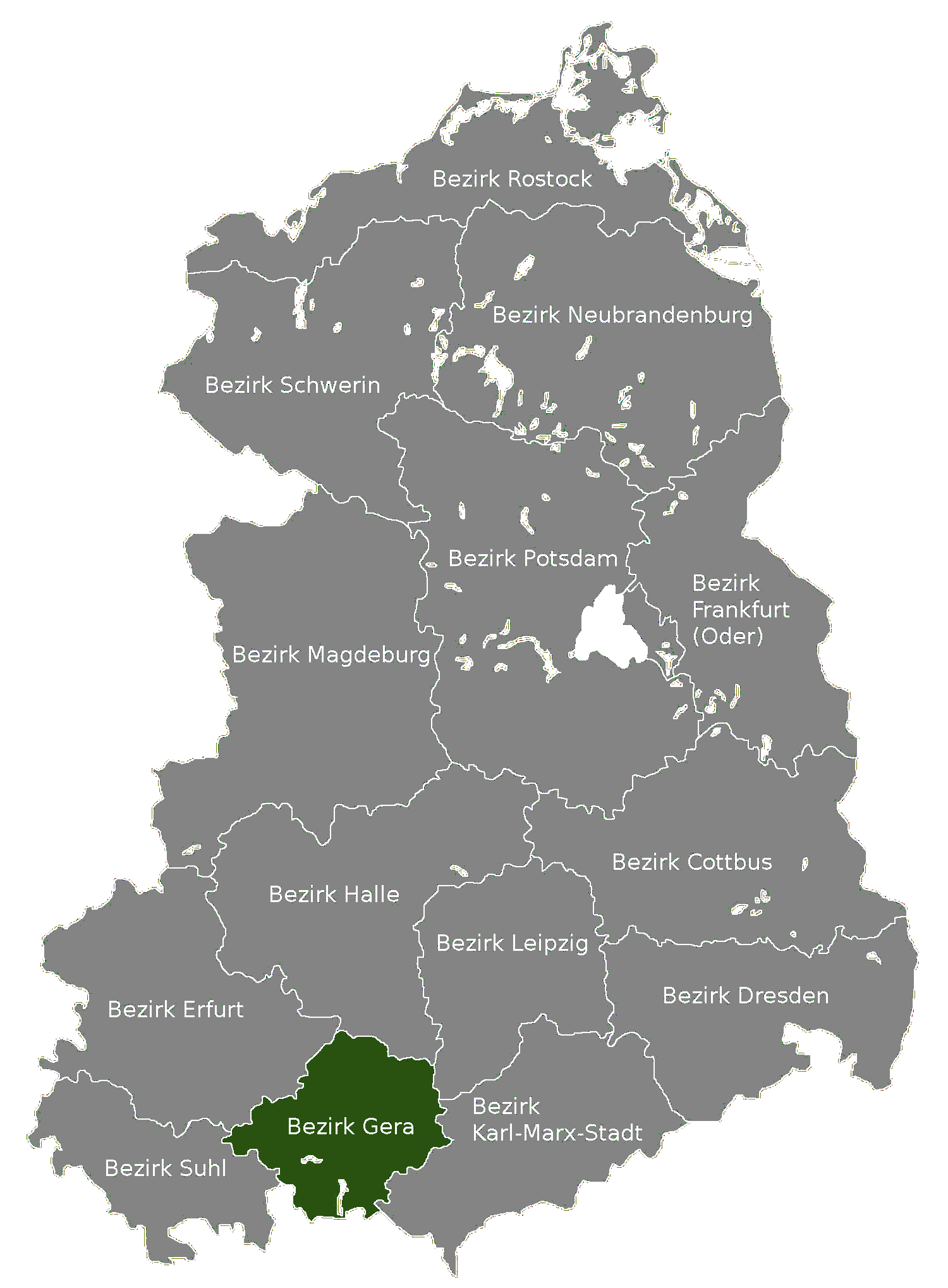 Map based on German Wikipedia